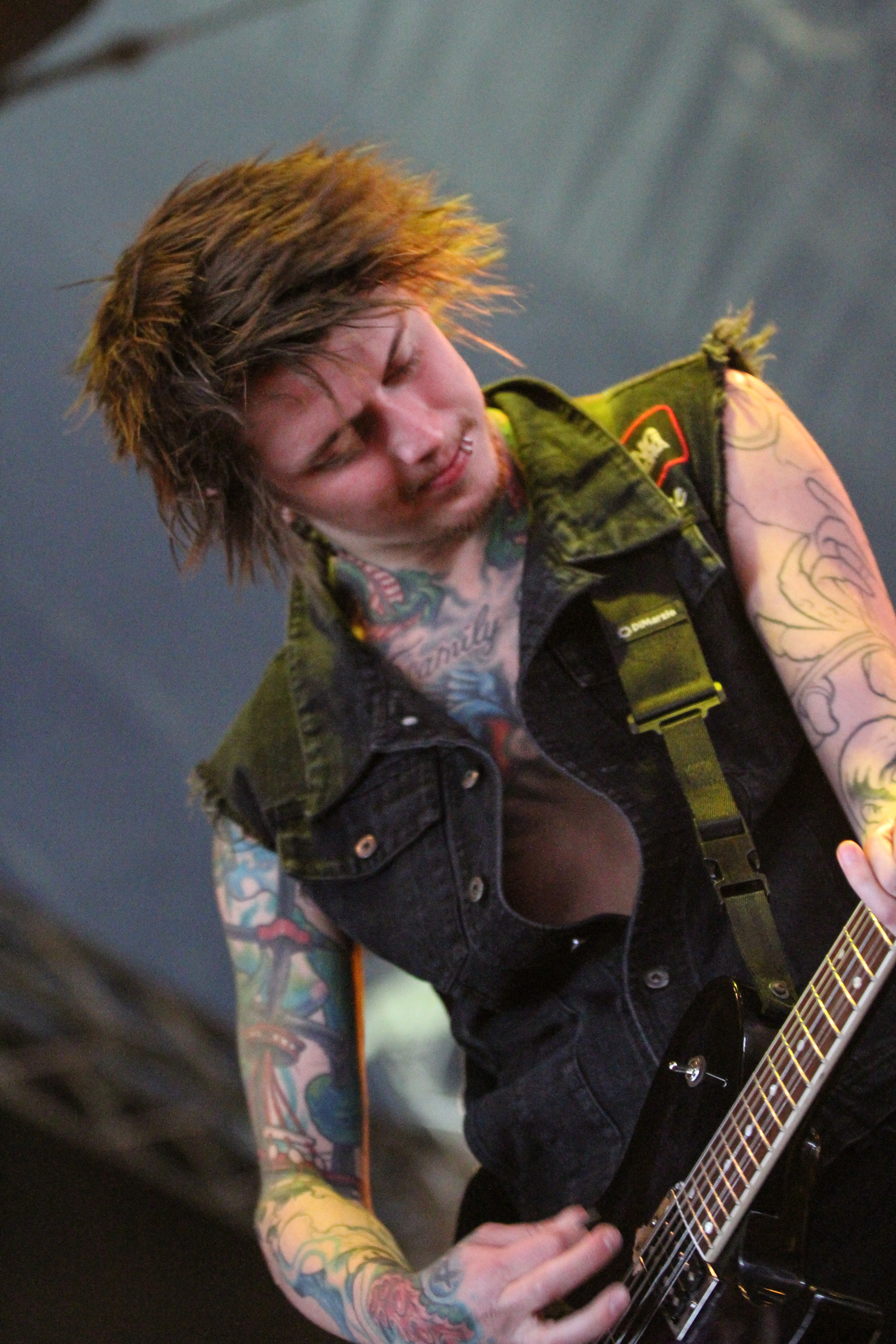 Festivalsommer This photo was created with the support of donations to Wikimedia Deutschland in the context of the CPB project "Festival Summer".